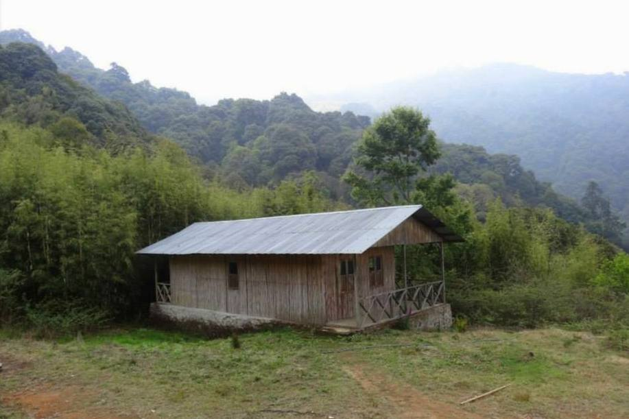 Alu bari Camp ( It is the paradise of different kinds of bird.),Neora Valley National Park,West Bengal, India